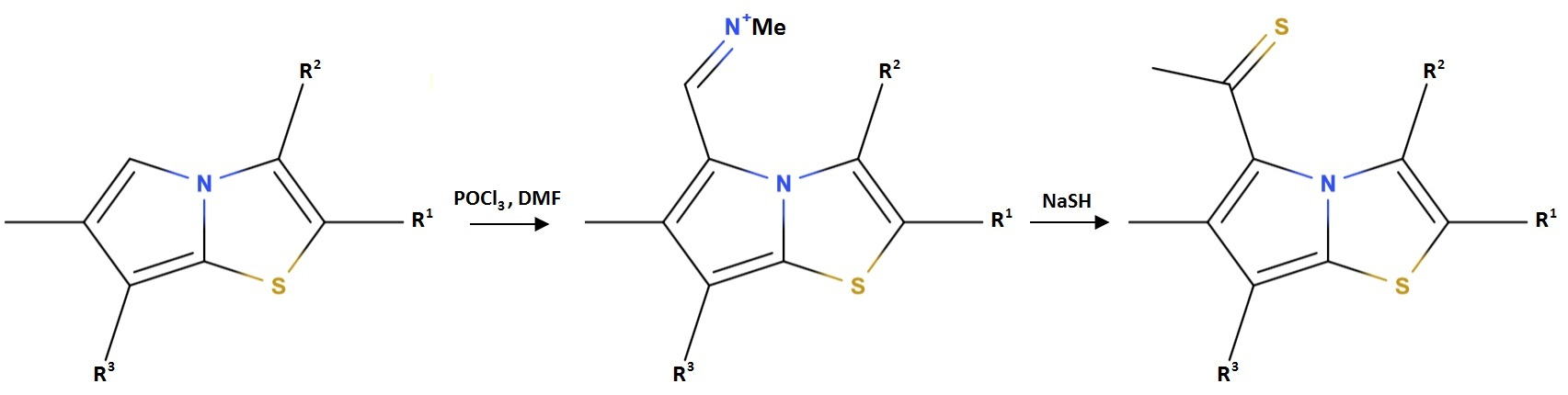 Heterocyclic thioaldehyde synthesis